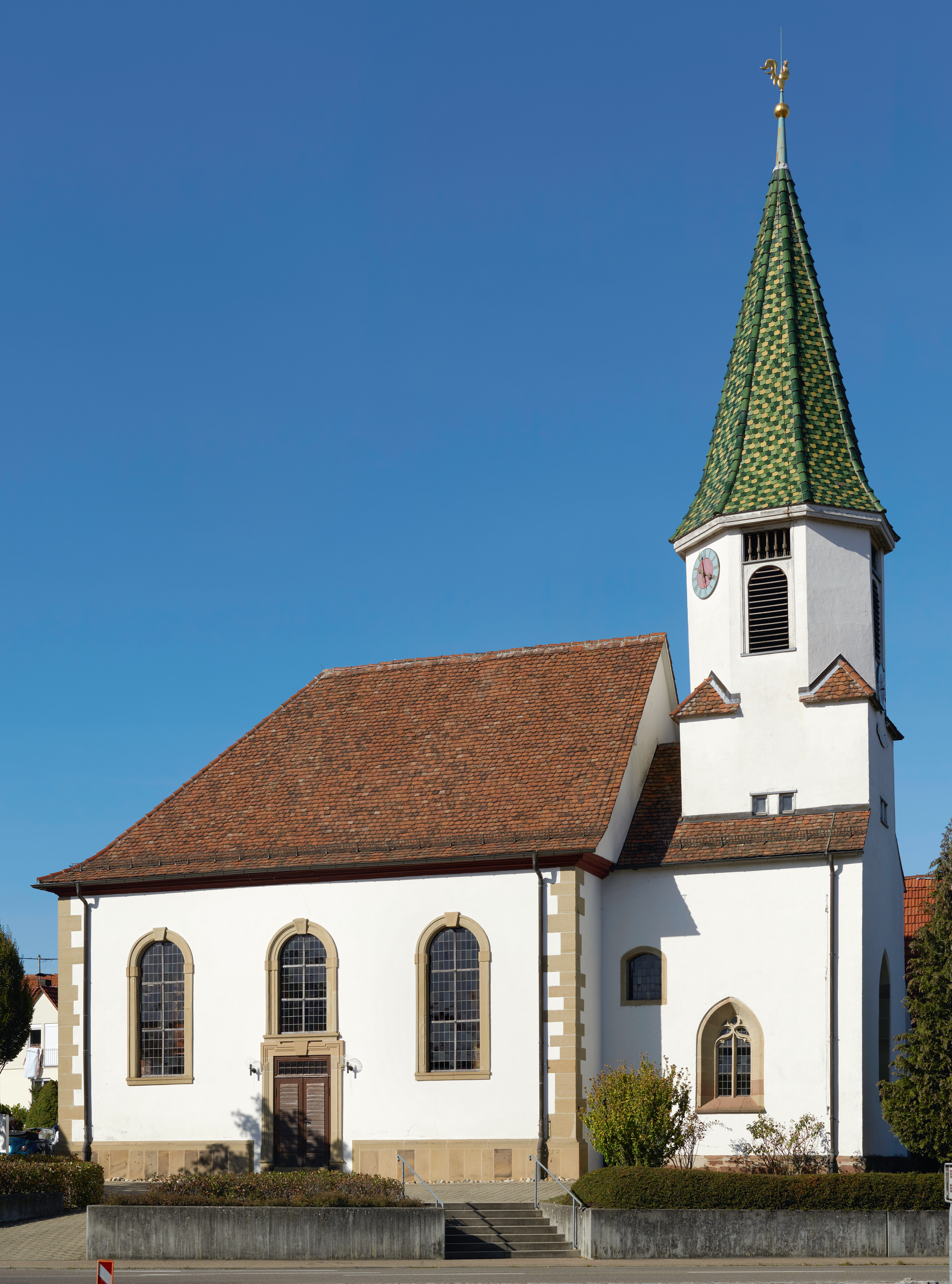 Protestant church in Winnenden-Hertmannsweiler, Baden-Württemberg, Germany; cultural monument. Stitched with Hugin out of four single Images. Camera: Sony Alpha 6000, Lens: Olympus Zuiko MC 50mm 1:1.8, Aperture 8.